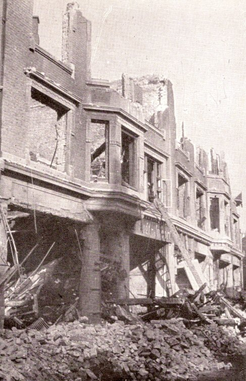 The bombing of Guldsmedegade, Aarhus 1945